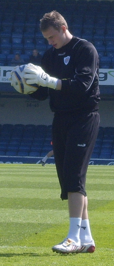 David Stockdale. Image cropped from original at flickr.